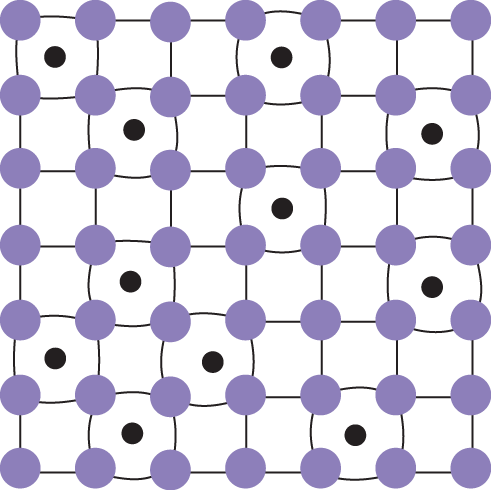 This is a schematic illustrating how the lattice is strained by the addition of interstitial solute.